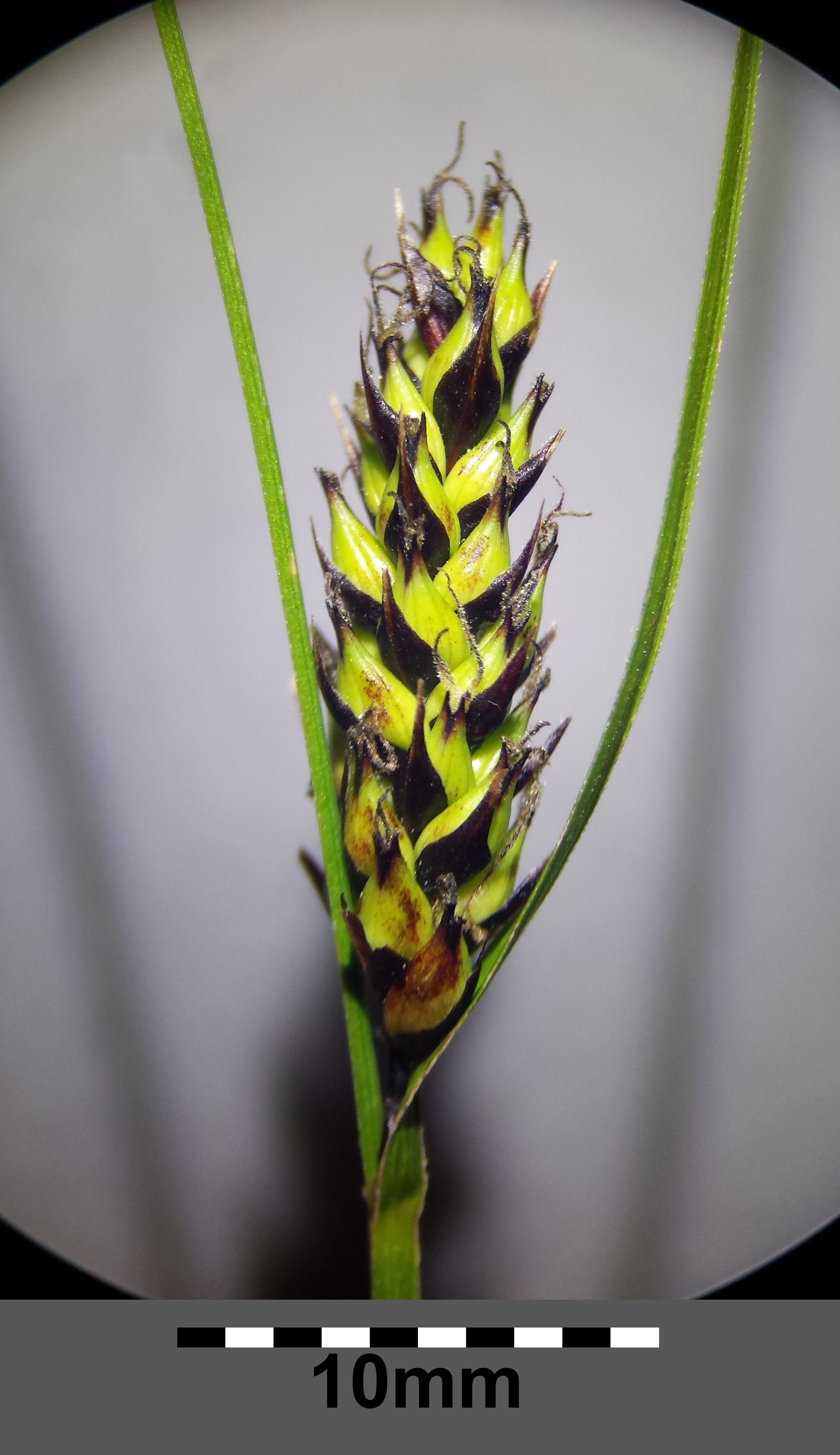 Female spike Taxonym: Carex melanostachya ss Fischer et al. EfÖLS 2008 ISBN 978-3-85474-187-9 Location: Floridsdorf rail station, Vienna-Floridsdorf - ca. 160 m a.s.l. Habitat: area below a pipe